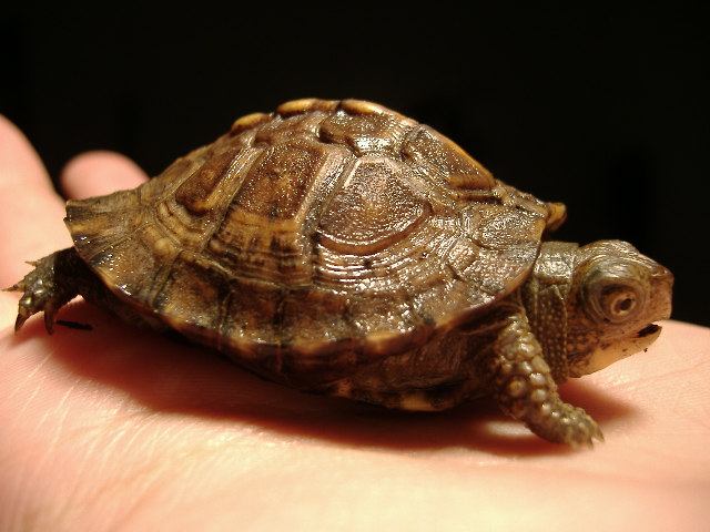 J.W. Connelly Self Taken Photo